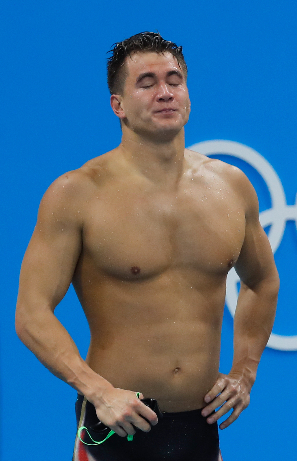 Rio de Janeiro - Estados Unidos vence o revezamento 4 x 100m nado livre nos Jogos Olímpicos Rio 2016, no Estádio Aquático.